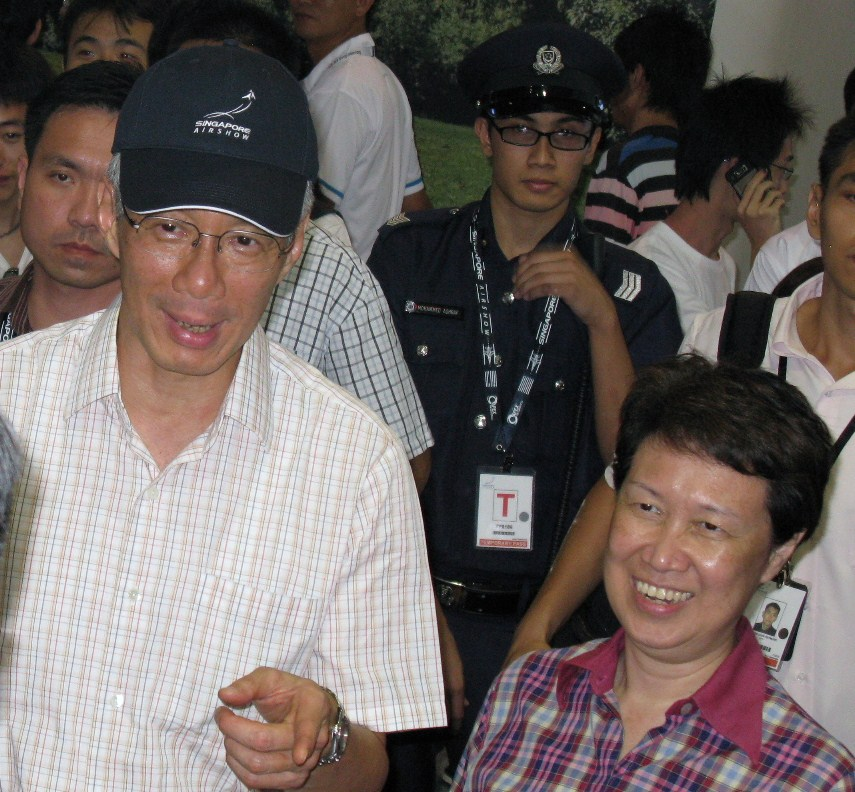 Singapore Air Show 2010: Prime Minister of Singapore Lee Hsien Loong (left) and his wife Ho Ching (right).